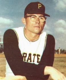 Professional baseball player Pete Mikkelsen